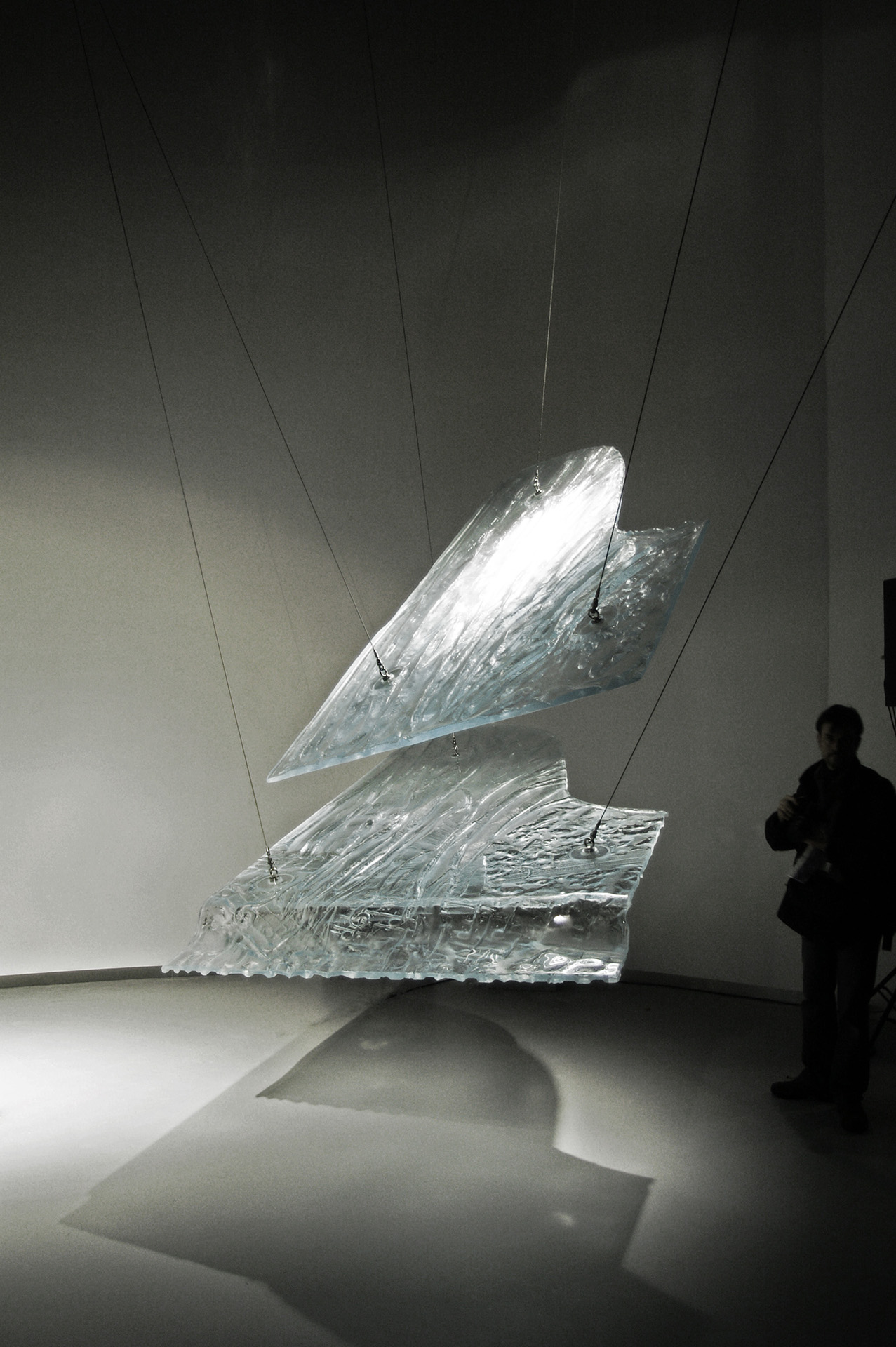 "The Spirit of the Piano" glass sculpture as the main artistic element of the Polish Pavilion of the EXPO 2005 in Aichi, Japan, by Tomasz Urbanowicz (ARCHIGLASS).